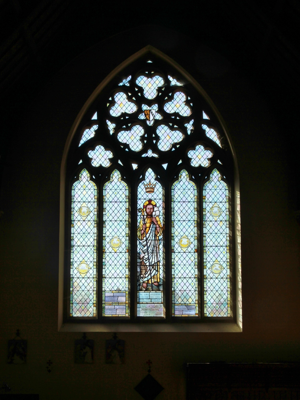 West window of St Mary's Roman Catholic church, St Mary's Road, East Hendred, Oxfordshire (formerly Berkshire). Arms at top: Eyston impaling Saville, for Thomas More Eyston (born 1902) of Hendred House, Wantage, Berks (eldest son of Charles Eyston and Agnes Blount), who married Alice Mary Saville, eldest da of 6th Earl of Mexborough. Arms of Eyston, of East Hendred: Sable, three lions rampant or. CHARLES JOHN EYSTON of Hendred House, East Hendred, Berkshire [today, Oxfordshire], b. Bath, Somersetshire, bap. 5 Nov. 1817 St Mary Catholic Church, East Hendred; d. there 19 Feb. 1883, bur. 23 Feb. 1883 St Mary Catholic Churchyard, East Hendred, son of Charles Eyston of Hendred House (1790-1857), and Maria Teresa Metcalfe (1791-1848), ; m. 10 Sept. 1863 St Michael Chapel, Mapledurham House, Oxfordshire, AGNES MARY BLOUNT, b. 28 Mar. 1834 Mapledurham House, bap. there 30 Mar. 1834; d. 29 Jan. 1918 The Coppice, Finchampstead, Berkshire, bur. 2 Feb. 1918 St Mary Catholic Church, East Hendred, 5th dau. of Michael Henry Blount of Mapledurham House (1789-1874).